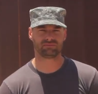 Blaine Cooper pictured in Arizona